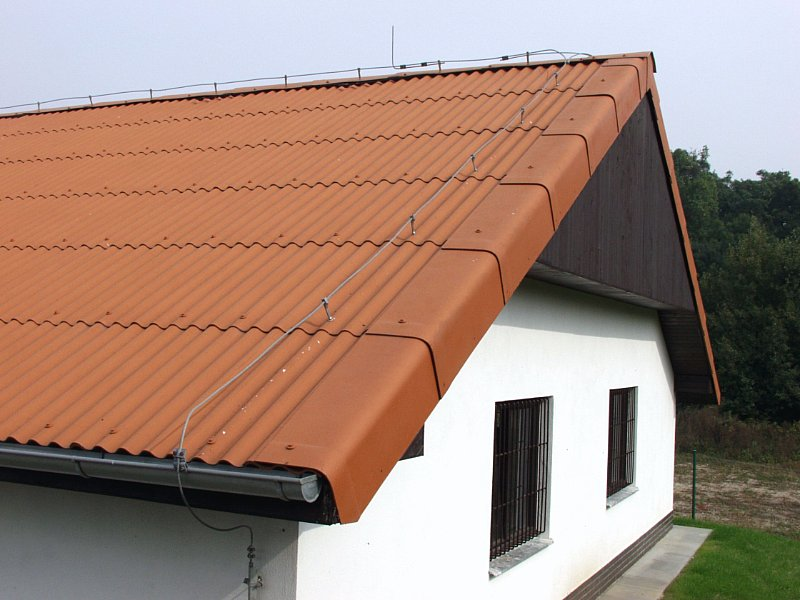 Close up of corrugated roof